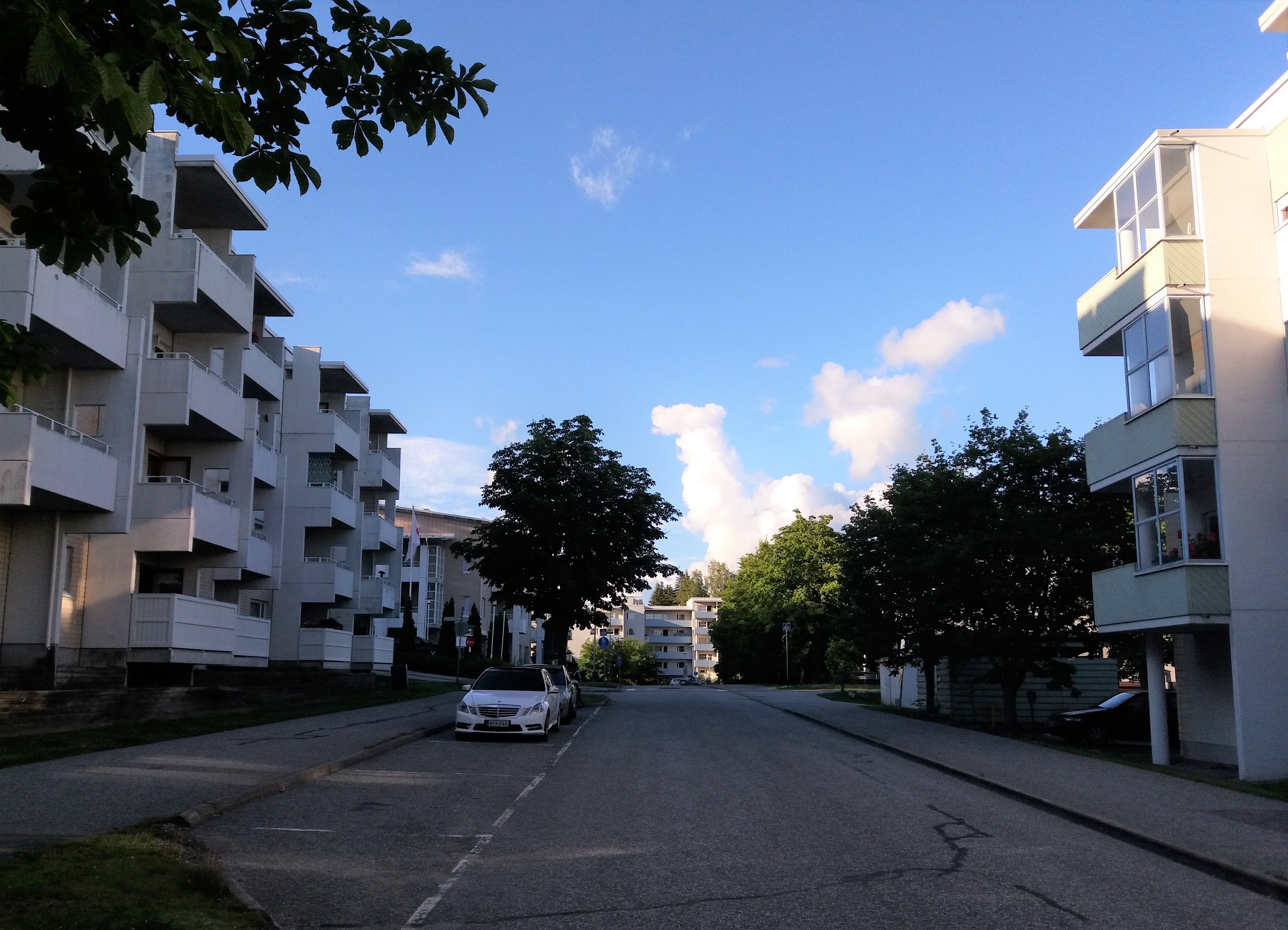 Kiltakallio neighbourhood in central Espoo, Finland